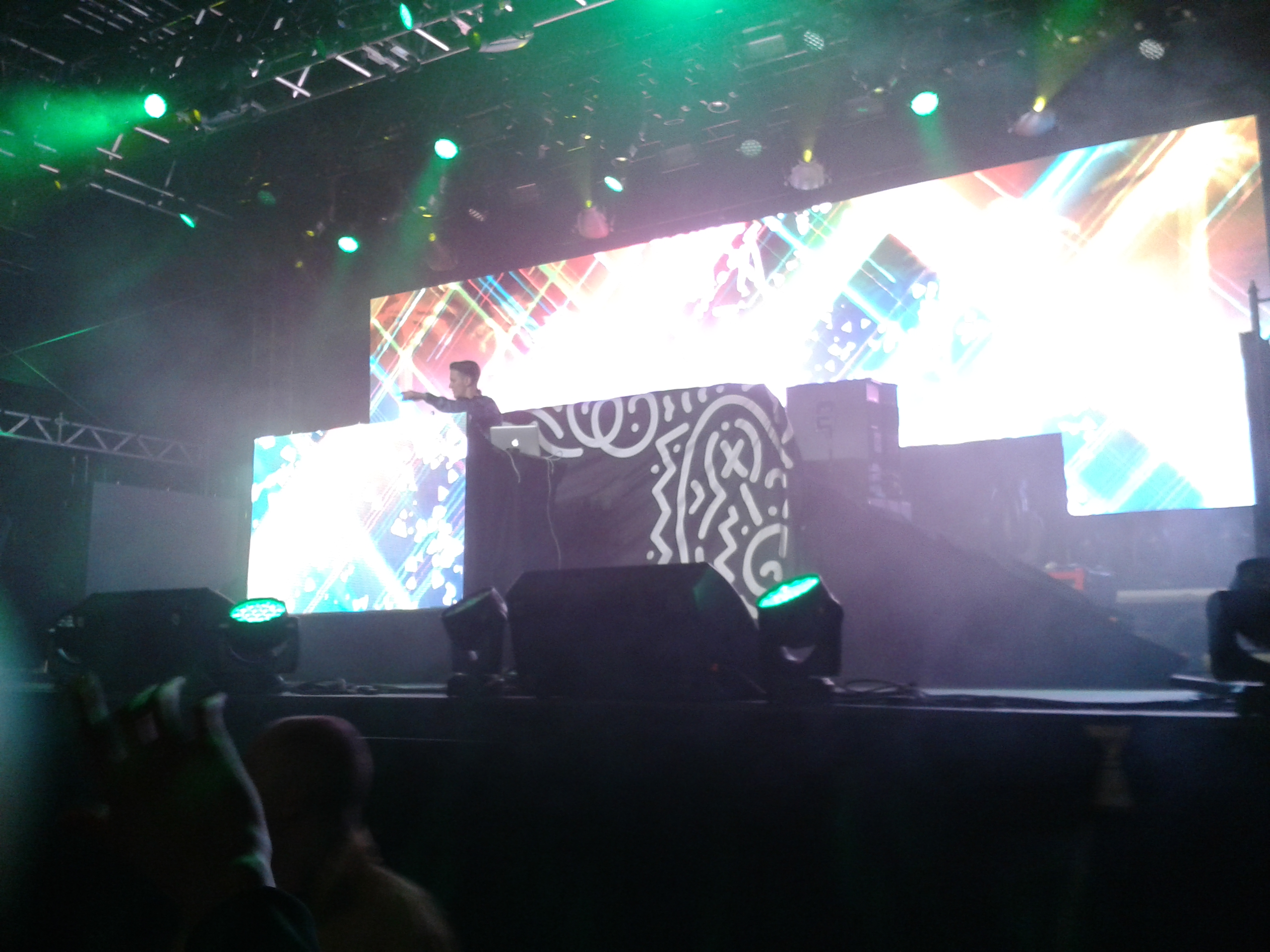 Matoma on the UKA 2015 in Trondheim, Norwegen.